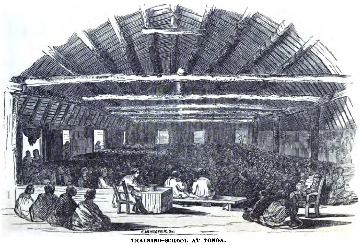 Training-School at Tonga (June 1852, p.60, IX)